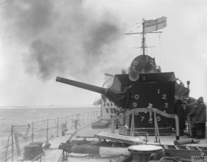 The British Naval Campaign in the Baltic, 1918-1919 Royal Navy light cruiser HMS CARADOC bombarding Bolshevik positions on Estonian coast. December 1918.